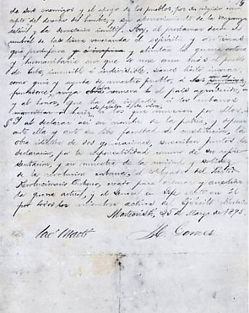 Documento firmado por José Martí y Máximo Gómez.